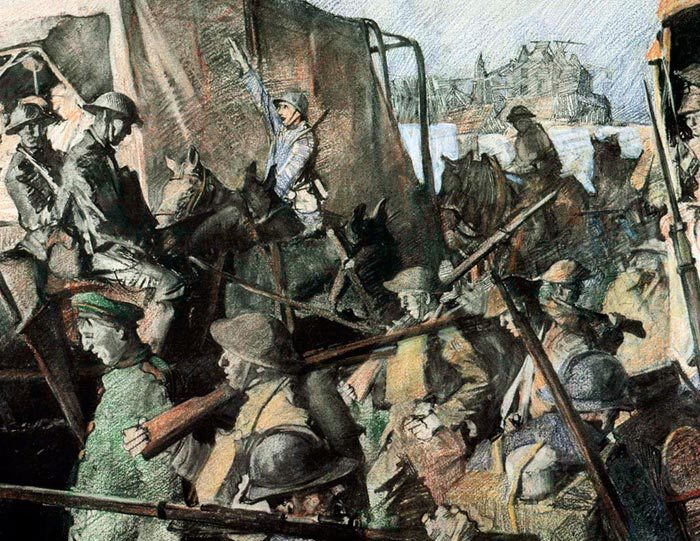 Traffic To Mont-St. Pere by George Matthews Harding. Note: French infantrymen and “Doughboys” of the Army’s 3d Division pack the road to Mont St. Père as disconsolate German prisoners trudge to the rear past trucks filled with advancing American Soldiers. Almost abstract in composition, George Harding’s densely populated painting recording the Allied counter-offensive across the Marne in July 1918 gives the viewer a sense of the confusion and disorder faced by Soldiers in combat, even in moments of victory. After the war, Harding returned to his job as an art professor at the Pennsylvania Academy of Fine Arts (United States Army Center of Military History).